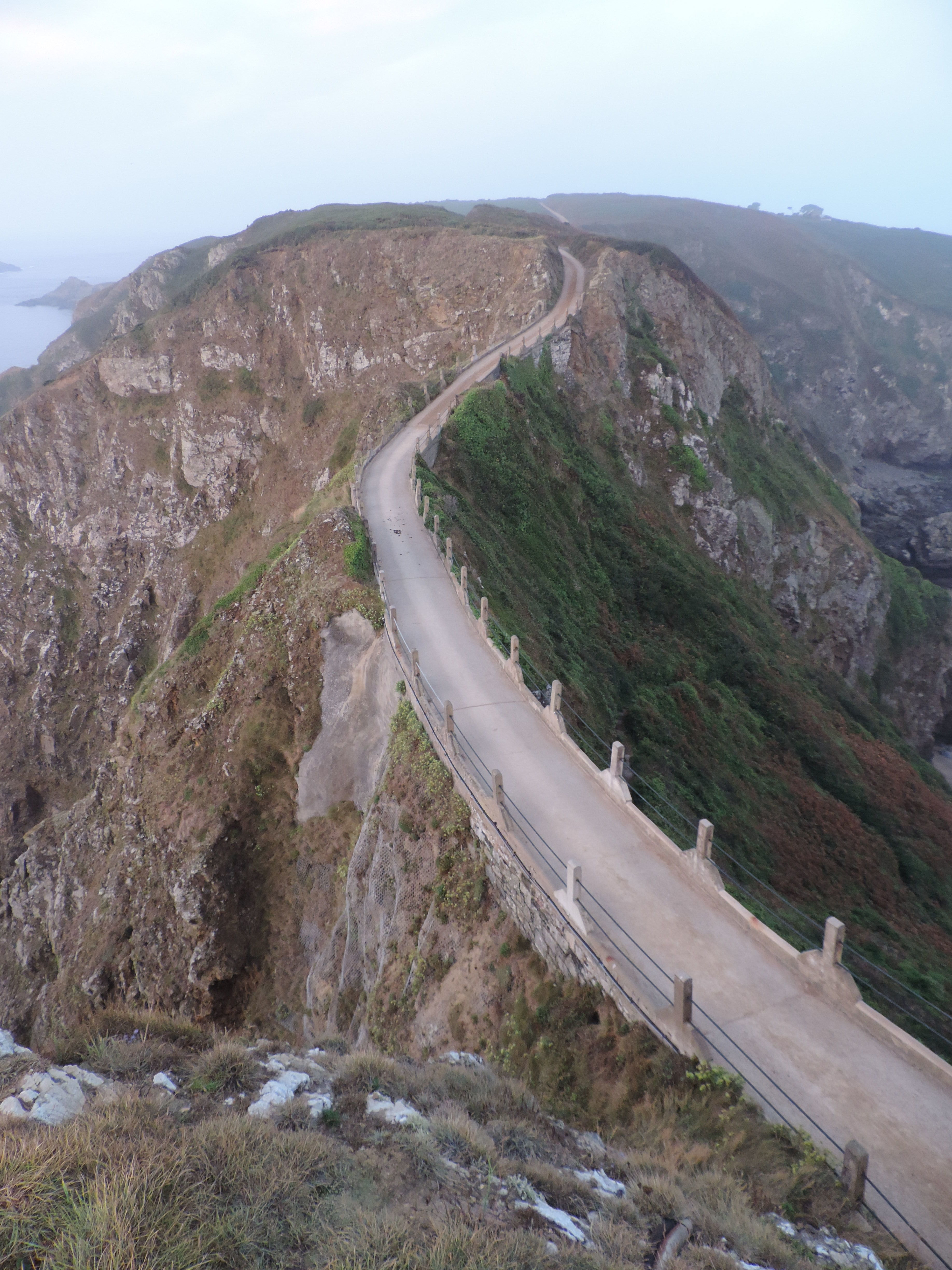 La Coupée on Sark, Channel Islands, right before sunrise.